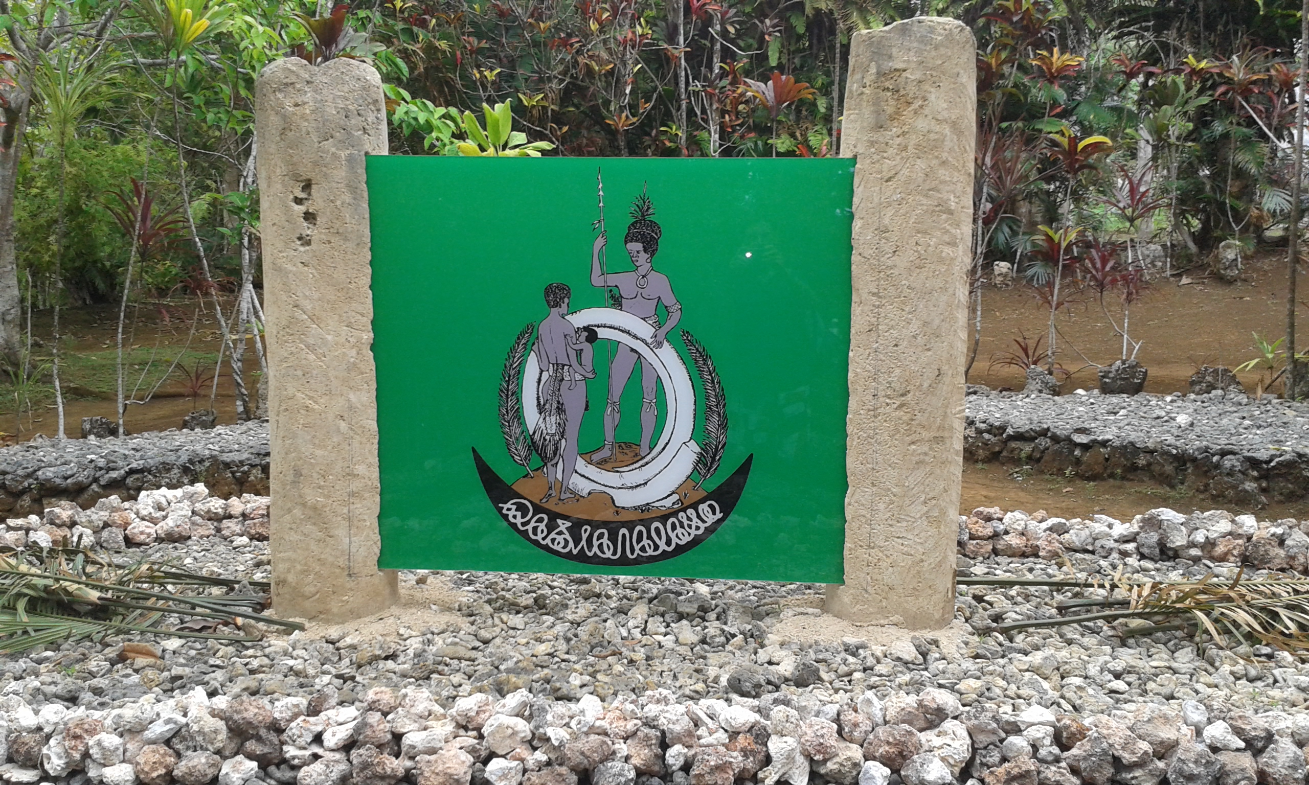 The coat of arms of the Turaga nation (an indigenous movement) displayed at the organisation's headquarters at Lavatmanggemu, Pentecost Island, Vanuatu.